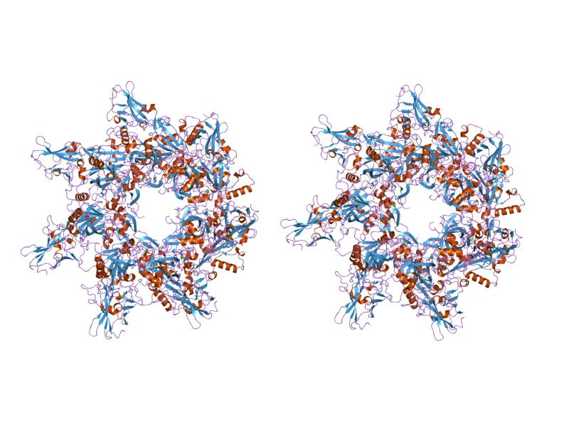 Cartoon representation of the molecular structure of protein registered with 1tzo code.